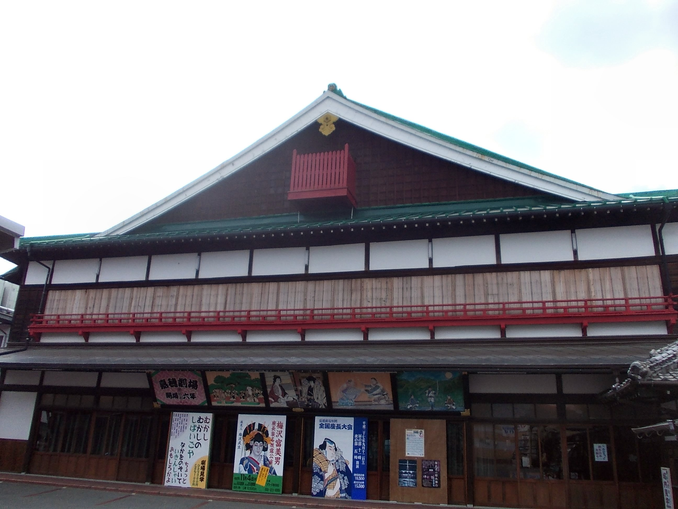 Kaho Gekijo theater in Iizuka city, Fukuoka, Japan